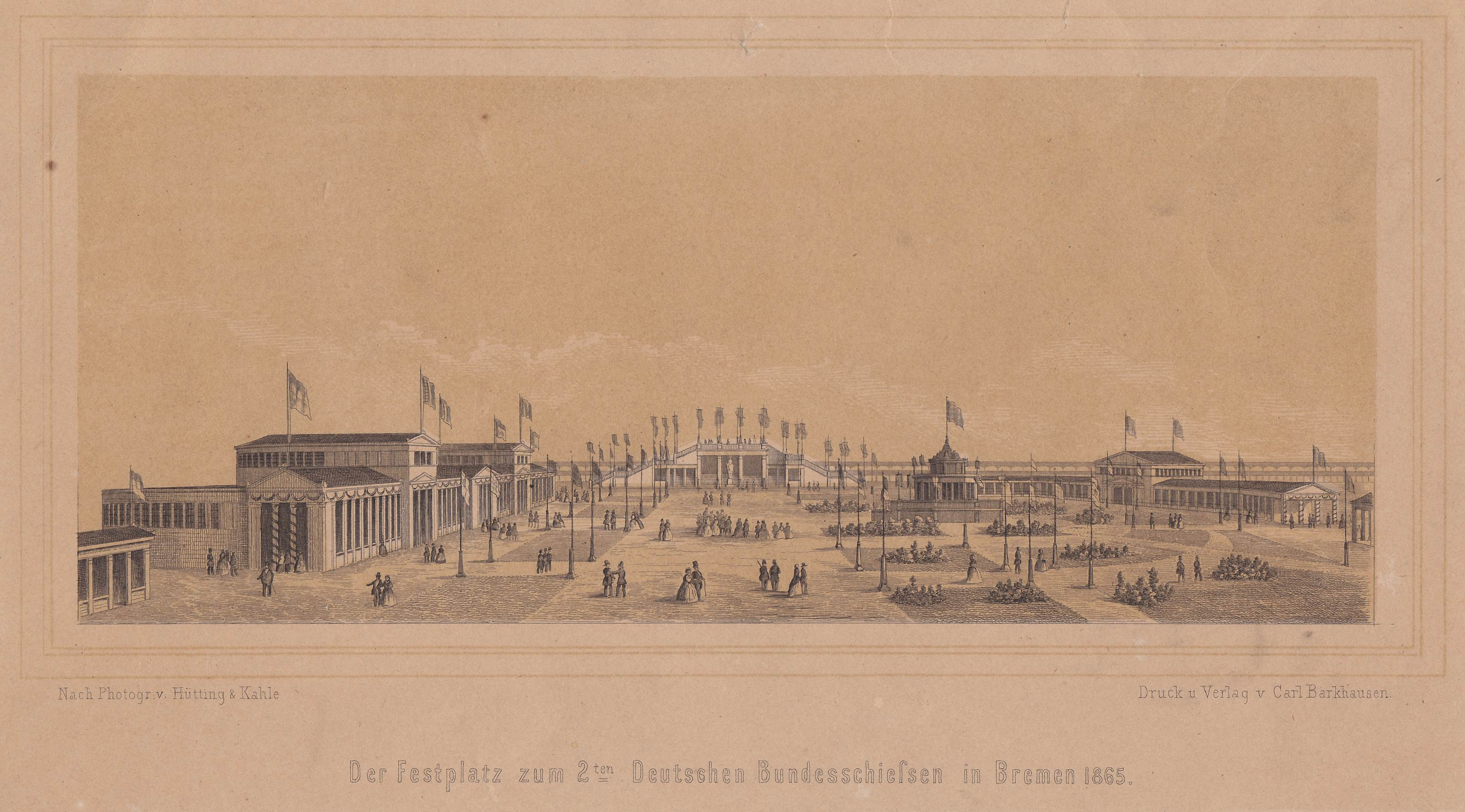 Place of the 2. German Bundesschiessen in Bremen 1865, Lithography